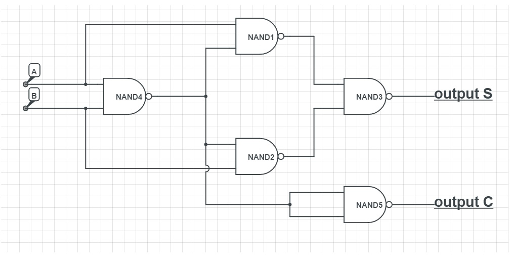 a half adder circuit using NAND GATES only. (the circuit is my own work created using circuitlab)